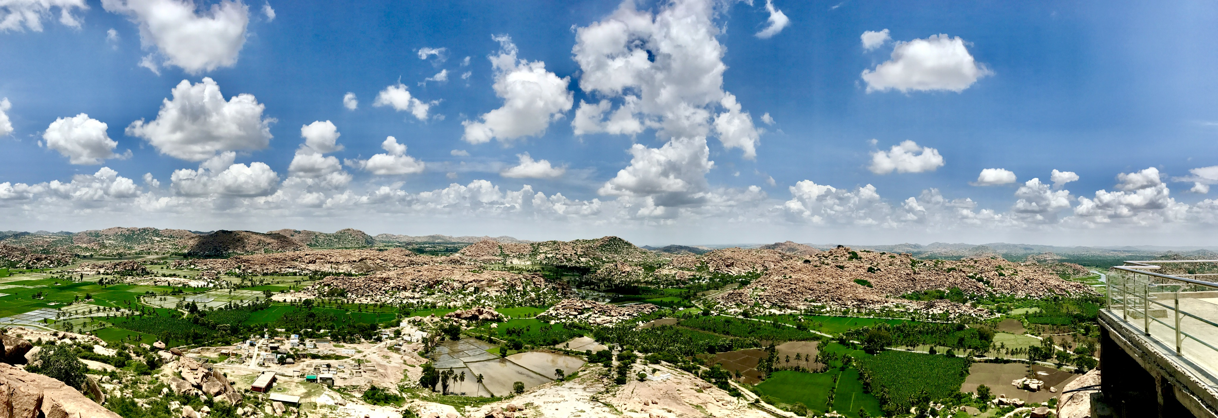 Panorama of Hampi from Anjaneyadri hill